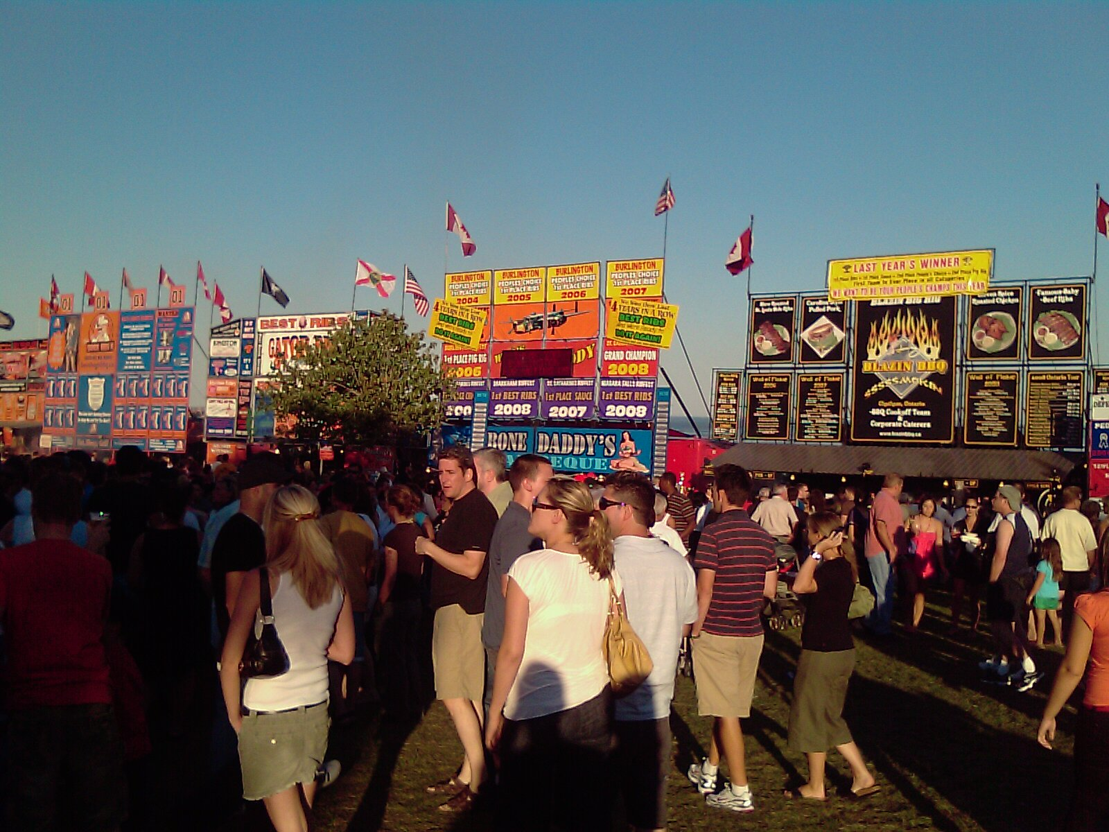 Some of the vendors, Burlington Ribfest 2008